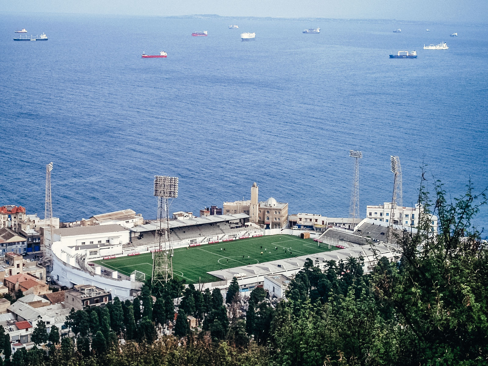 Omar Hammadi Stadium in Bab-El-Oued, Algiers, Algeria. Home to USM Alger and Paradou AC.